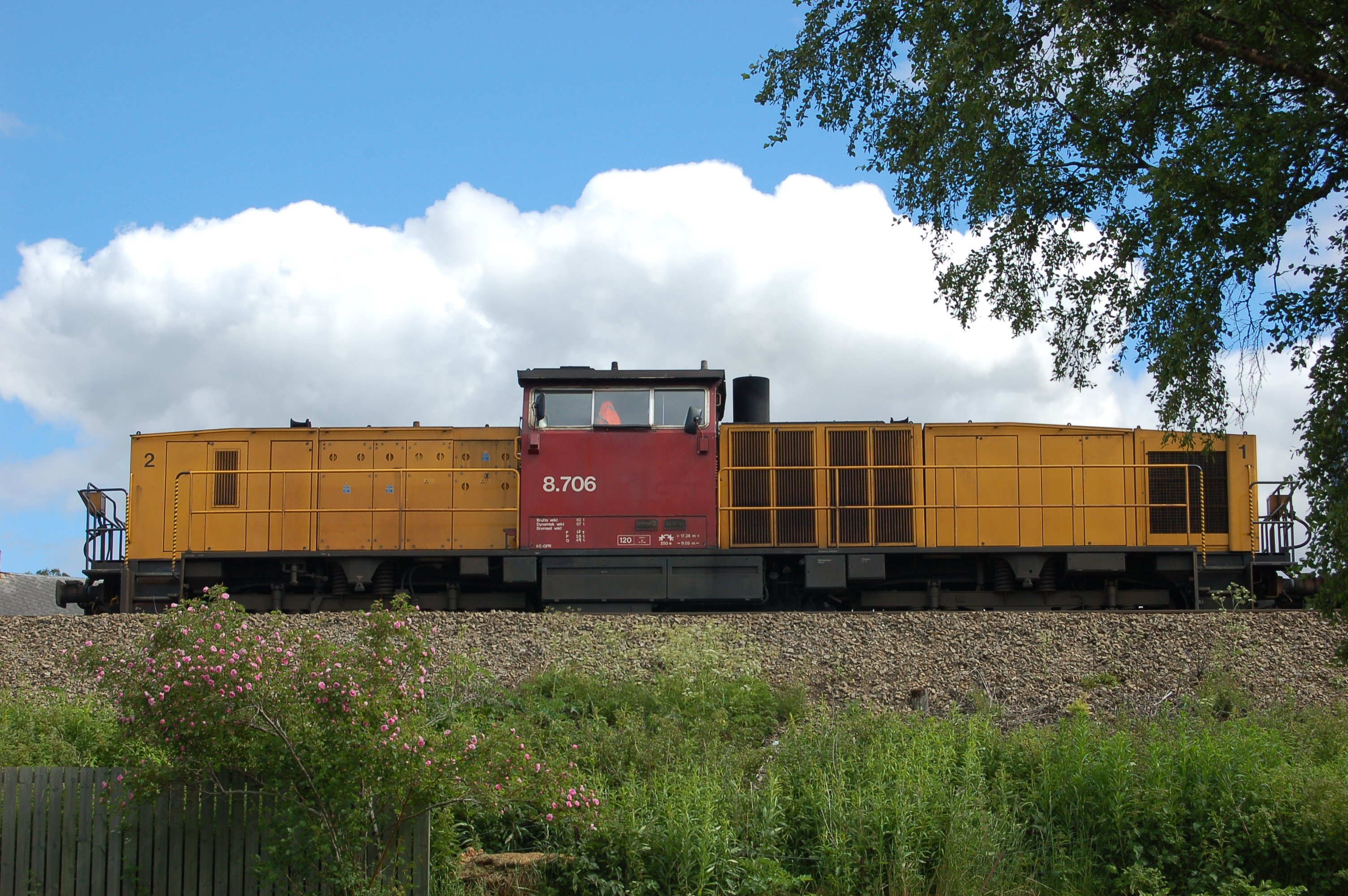 CargoNet NSB Di 8 locomotive at Skogn Station on Nordlandsbanen in Levanger, Norway.